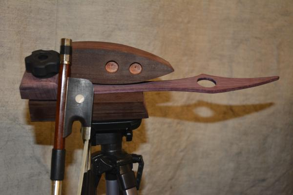 Daxophone with dax and bow